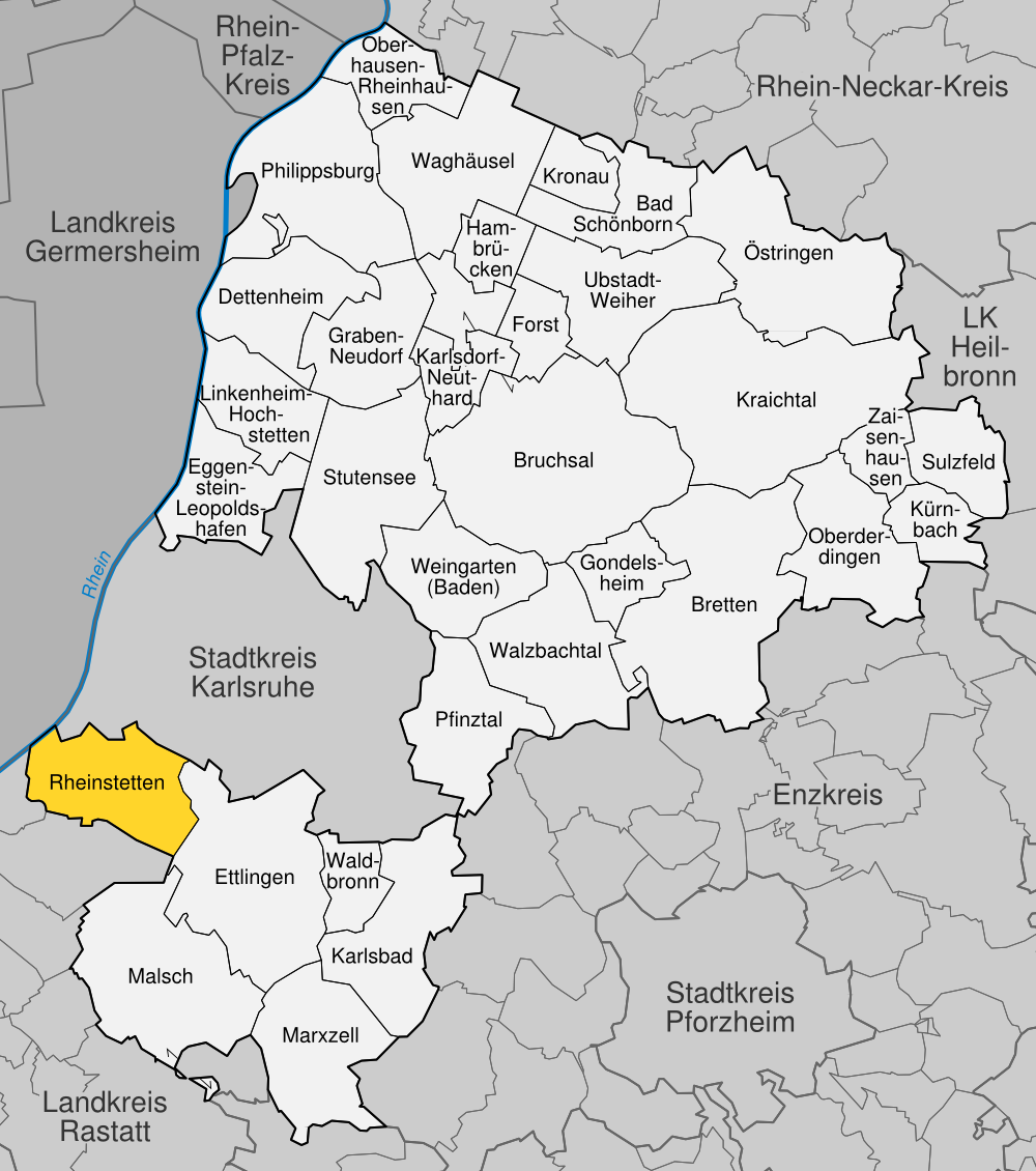 position of Rheinstetten within distict of Karlsruhe, Baden-Württemberg, Germany